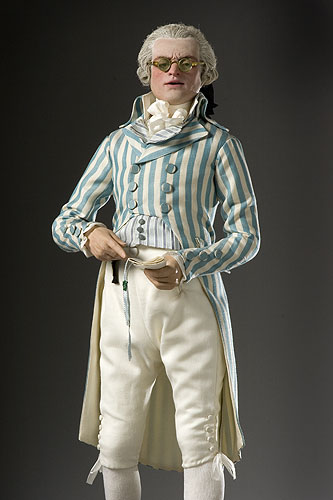 Historical Mixed Media Figure of Maximillian Robespierre produced by artist/historian George S. Stuart and photographed by Peter d'Aprix. This image, from the George S. Stuart Gallery of Historical Figures® archive ( is provided for all uses with appropriate attribution. Any derivatives must be shared in the same manner. Contributor mharrsch is webmaster for the gallery site.